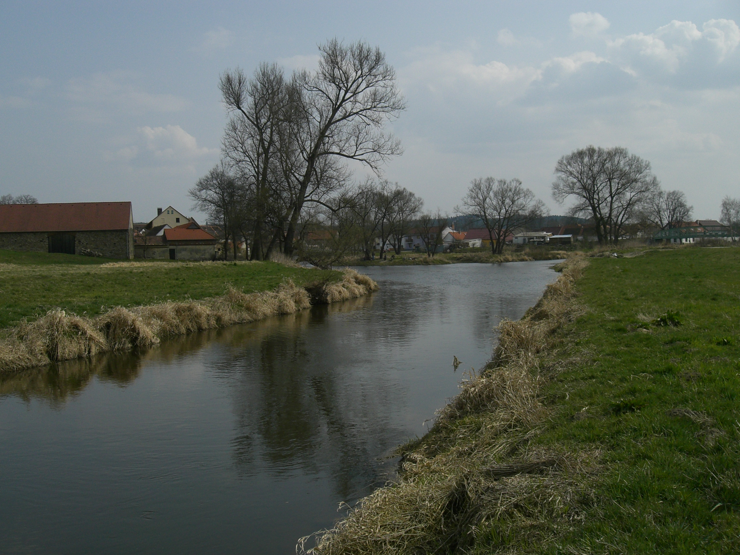 Putim village in Písek district, Czech Republic. Sight to village with Blanice river.